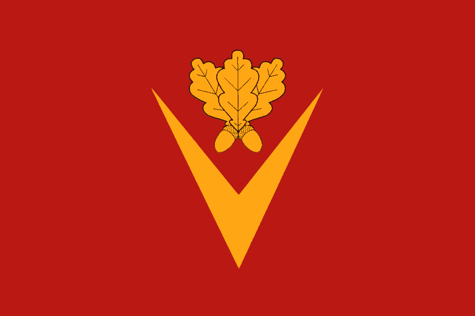 Flag of Borisoglebsk, Voronezh Region, Russia